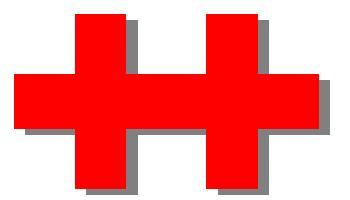 A symbol often seen during birthday of Rep. of China (Taiwan) on Oct. 10th (stylized version of character 卄).